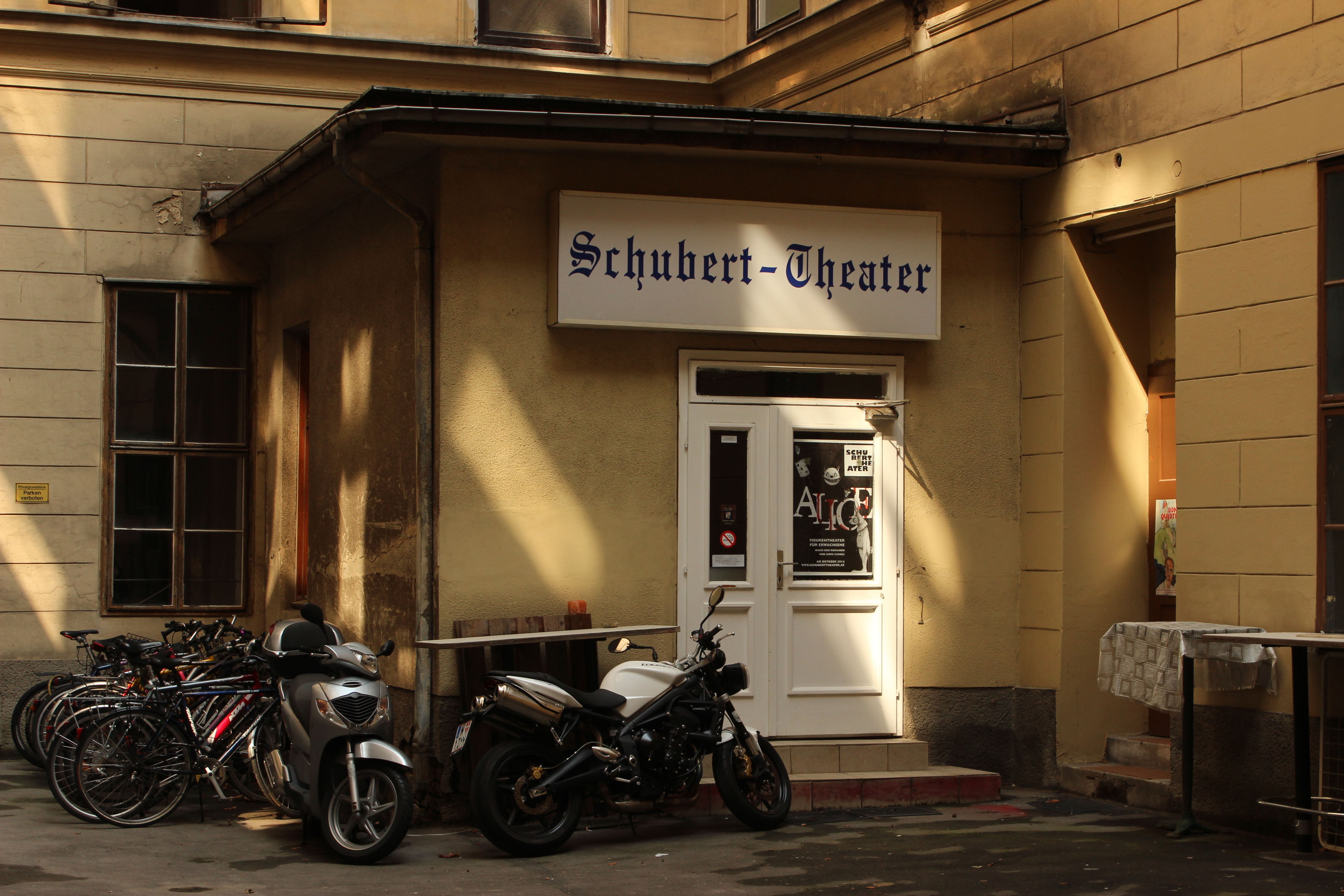 Schubert Theater, Währinger Straße 46, Vienna, entry.